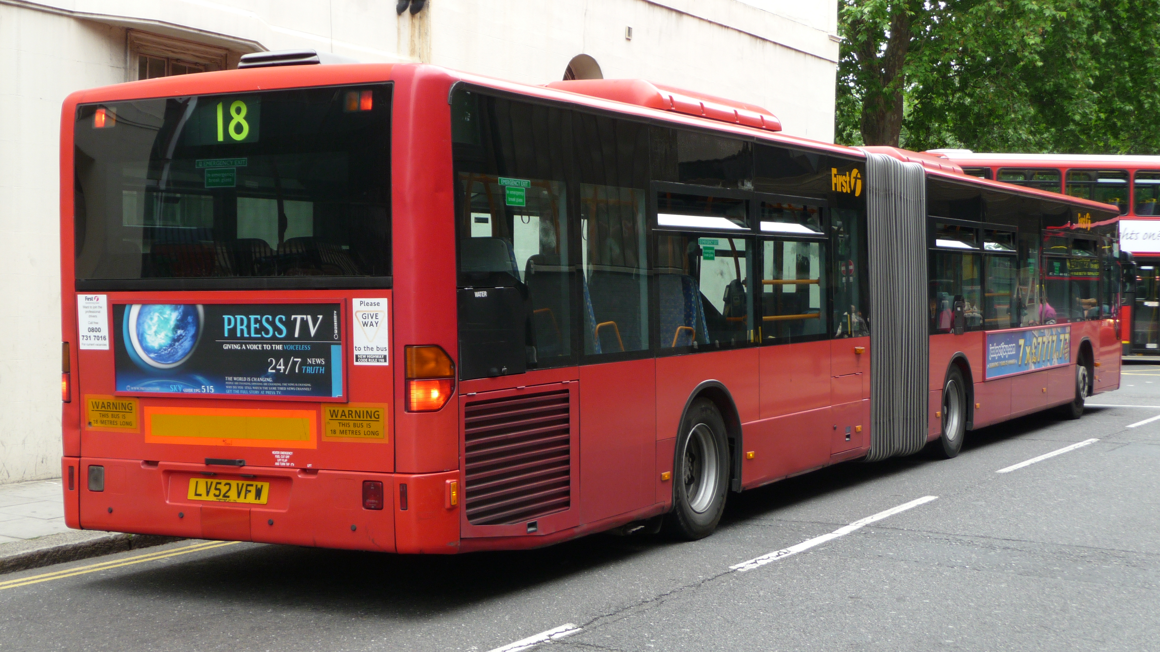 First London EA11066 (LV52 VFW), a Mercedes-Benz Citaro, at Euston, London.